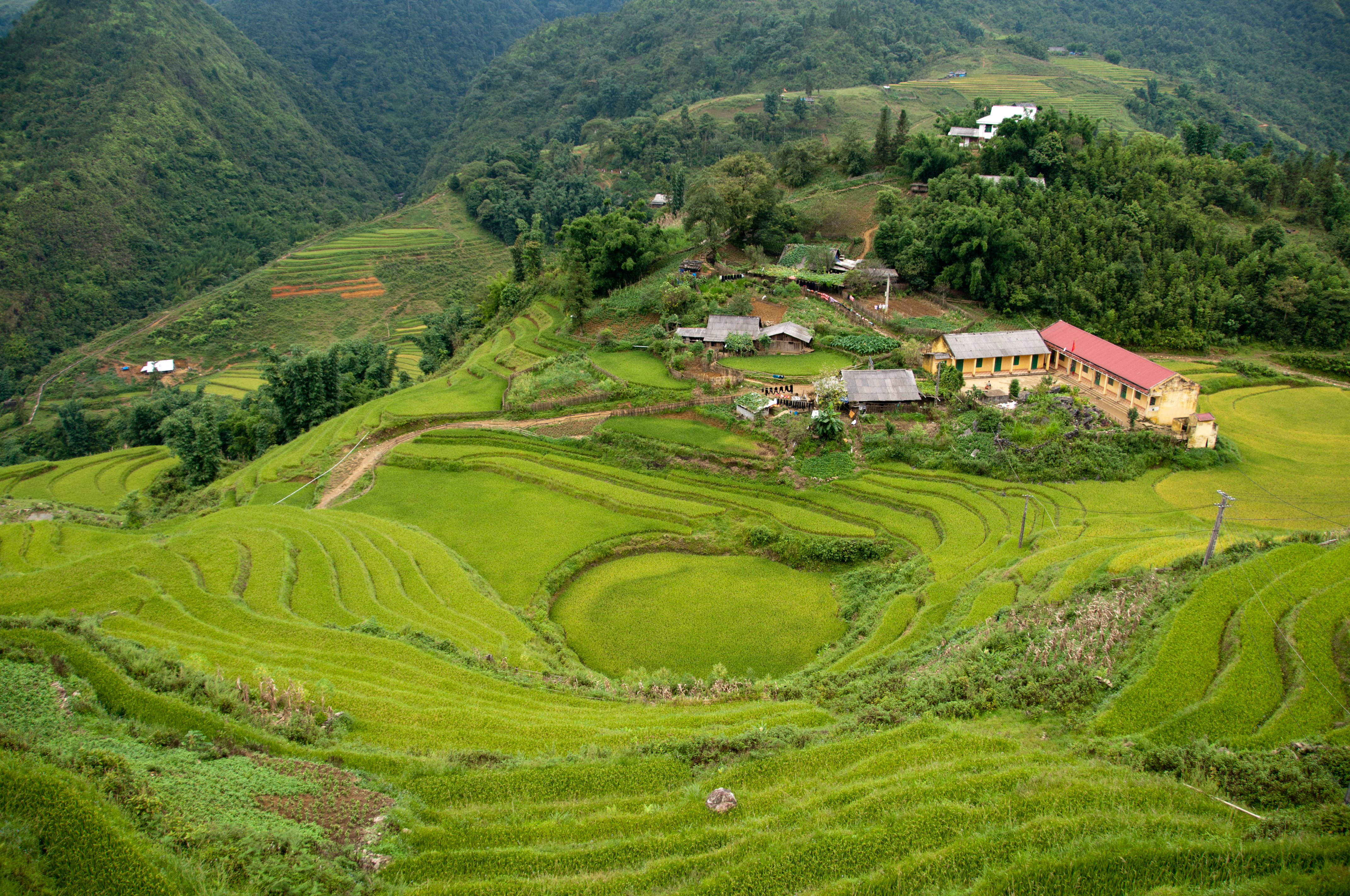 Terraced fields, Sa Pa, Vietnam